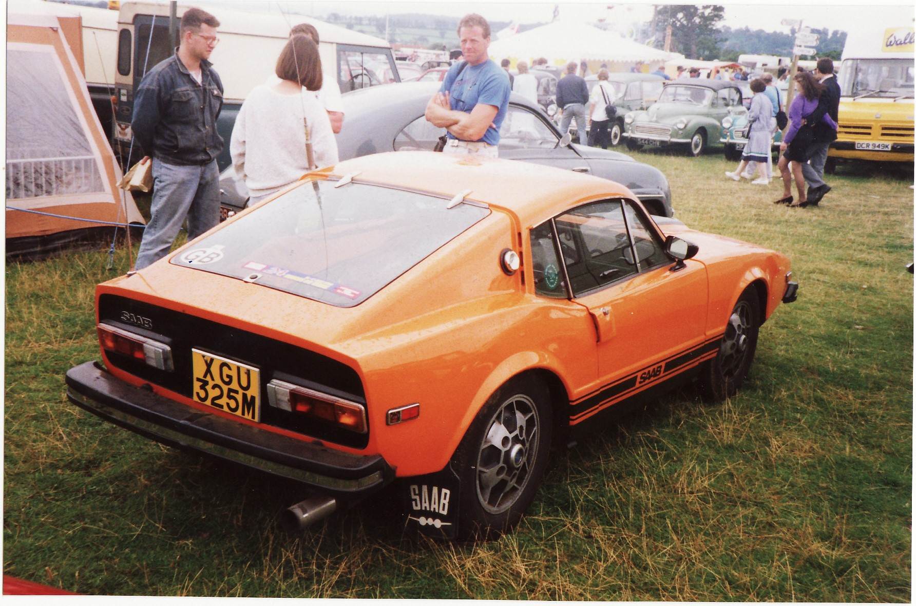 Spotted at Yeovil Festival of Transport, August 1991